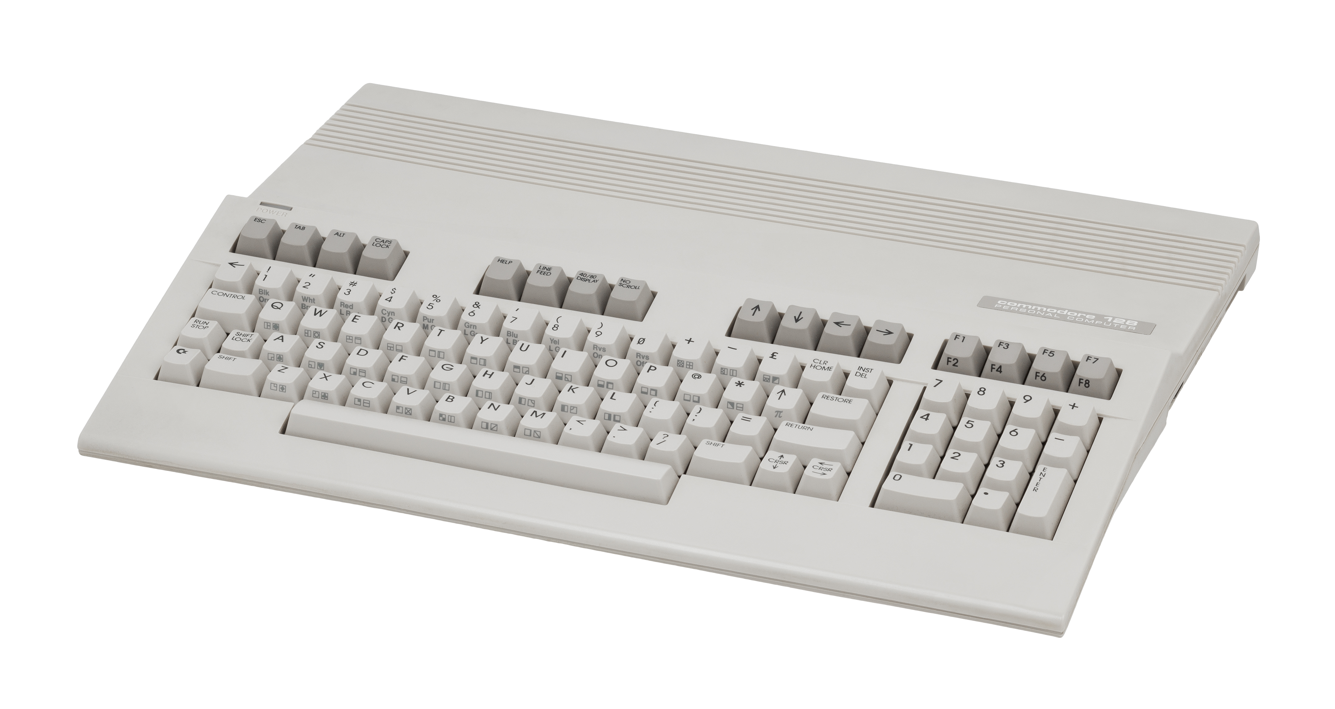 The Commodore 128, an 8-bit computer released by Commodore Business Machines in 1985. A successor to the popular Commodore 64.